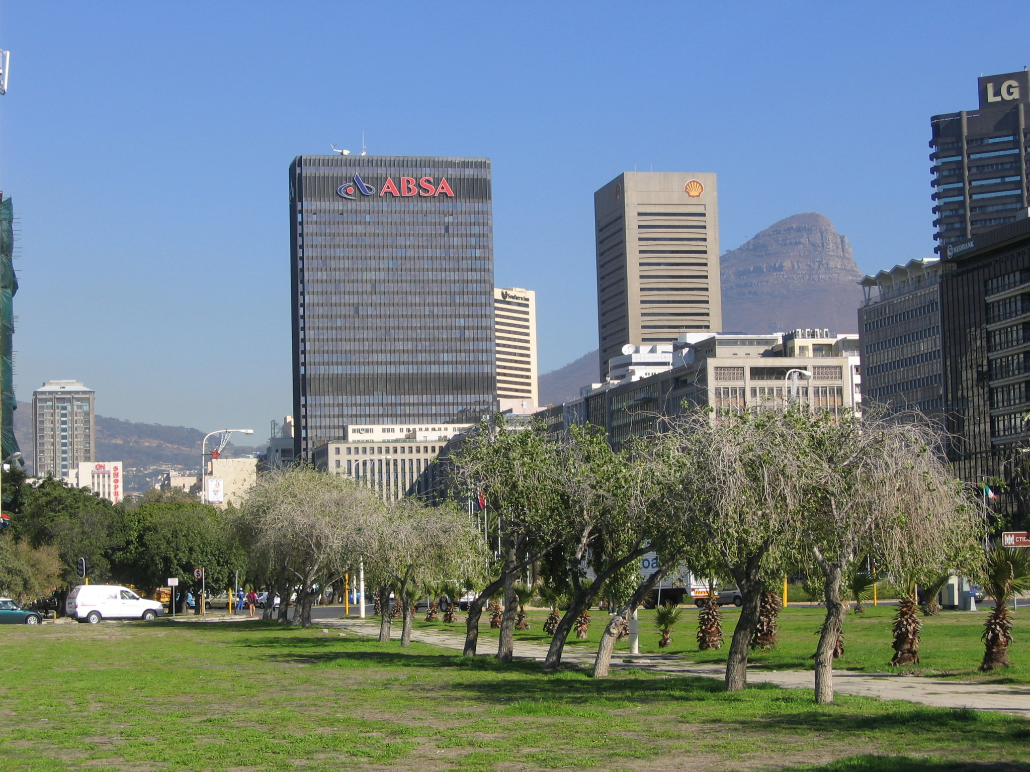 View from the northern CBD towards Table Mountain in Cape Town, South Africa. Lion's Head is visible between the Shell and LG buildings.